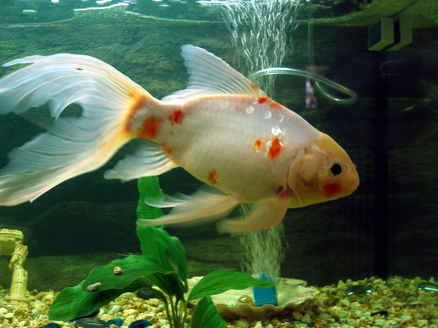 Shubunkin 7 yrs old and 26CM